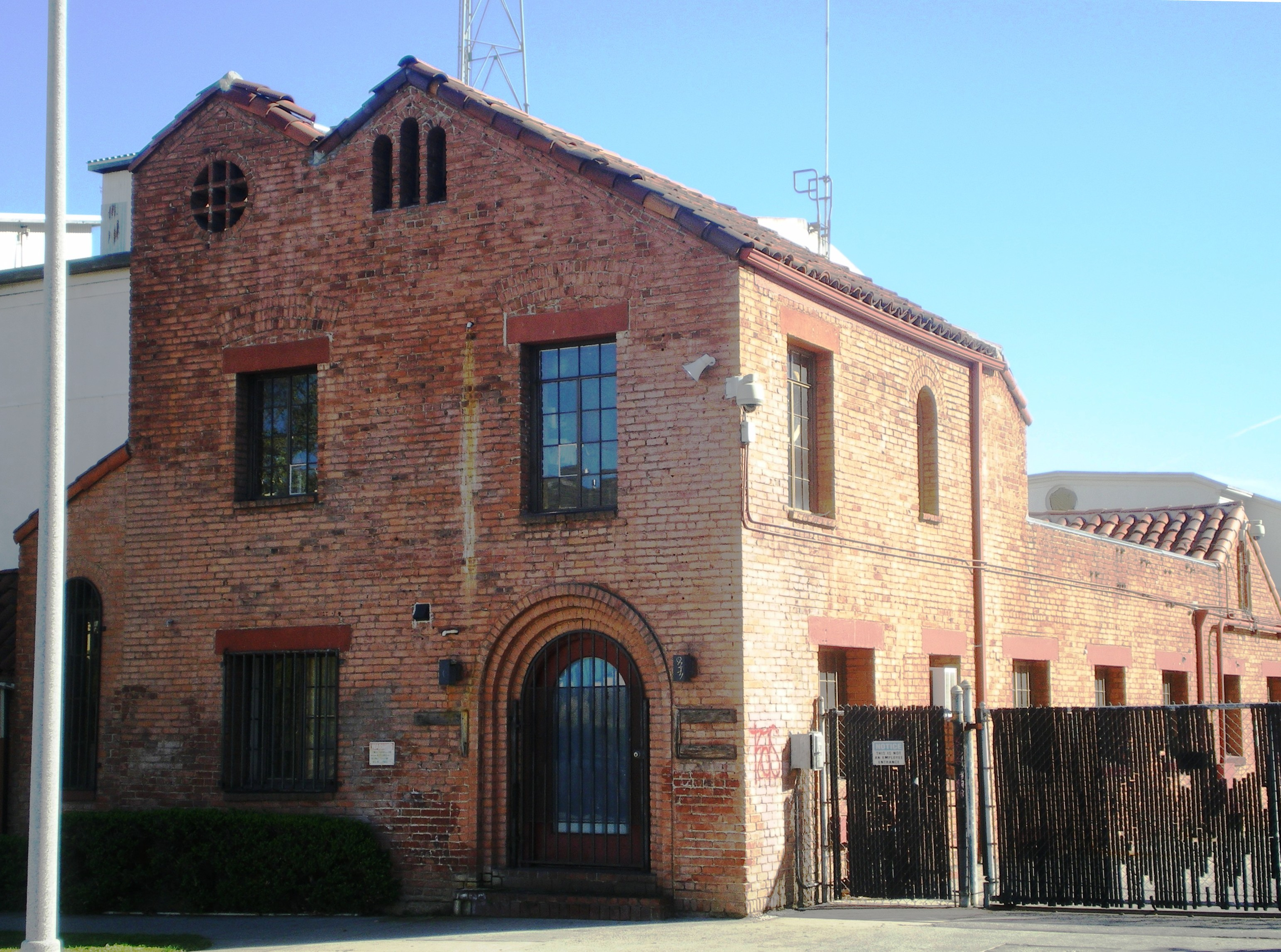 Former KCET Studios, old portion — on Sunset Boulevard, Hollywood (Los Angeles), California. The longest continuously-producing studio in Hollywood, establishment in 1912. A Los Angeles Historic-Cultural Monument.